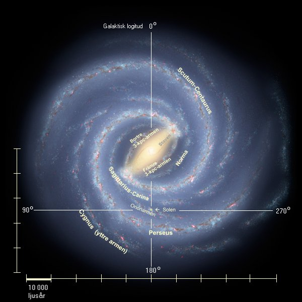 Artist's conception of the spiral structure of the Milky Way with two major stellar arms and a central bar. This is an annotated version (in Swedish) derived from File:Milky Way 2005.jpg (2008 updates included) which originates from NASA. The text includes the names of major galactic arms, the Sun's position and approximate distances and galactic logitutes.